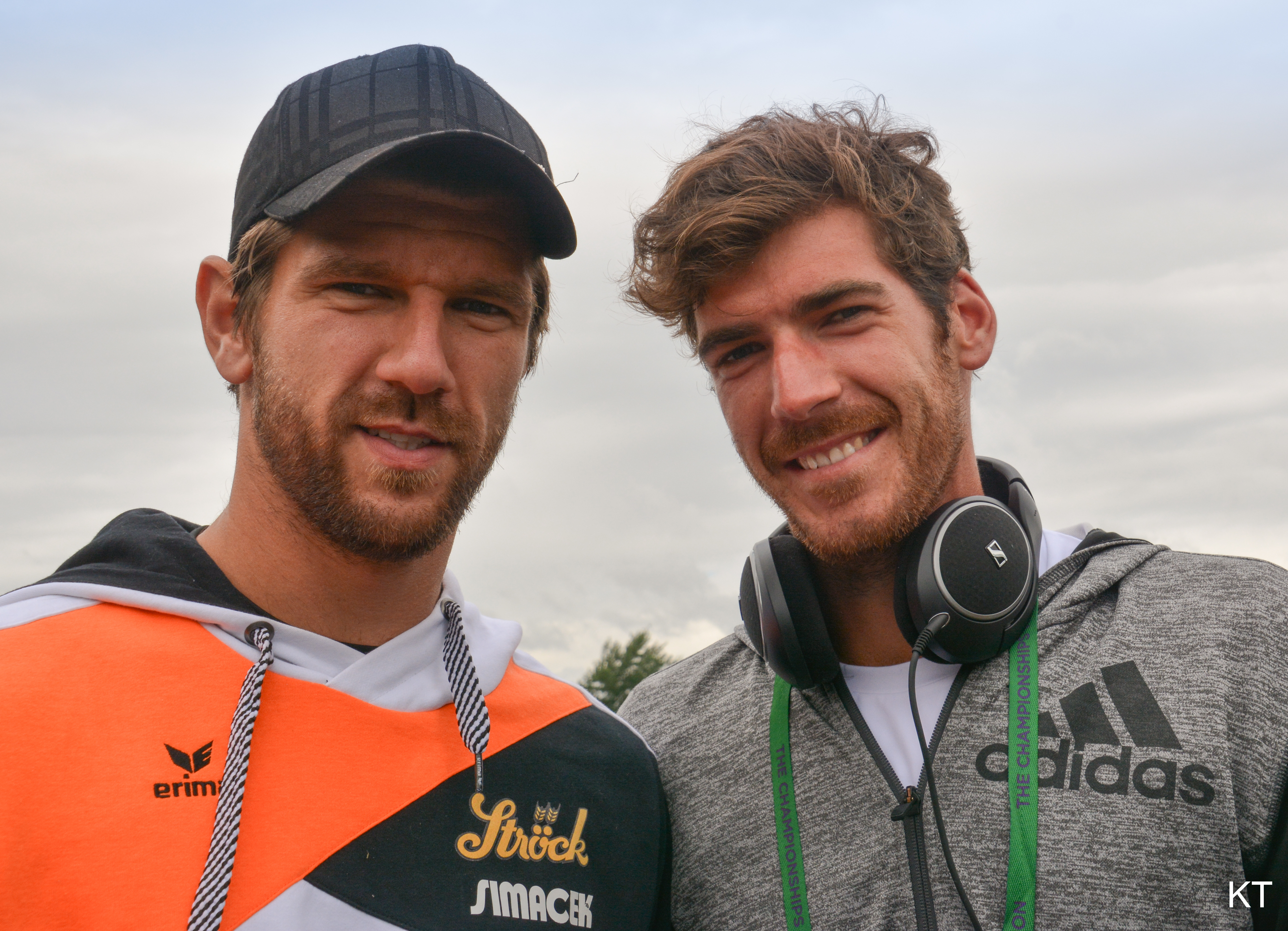 It seems wrong to see Jurgen in qualifying. :( Day 1 of Wimbledon qualifying 2015